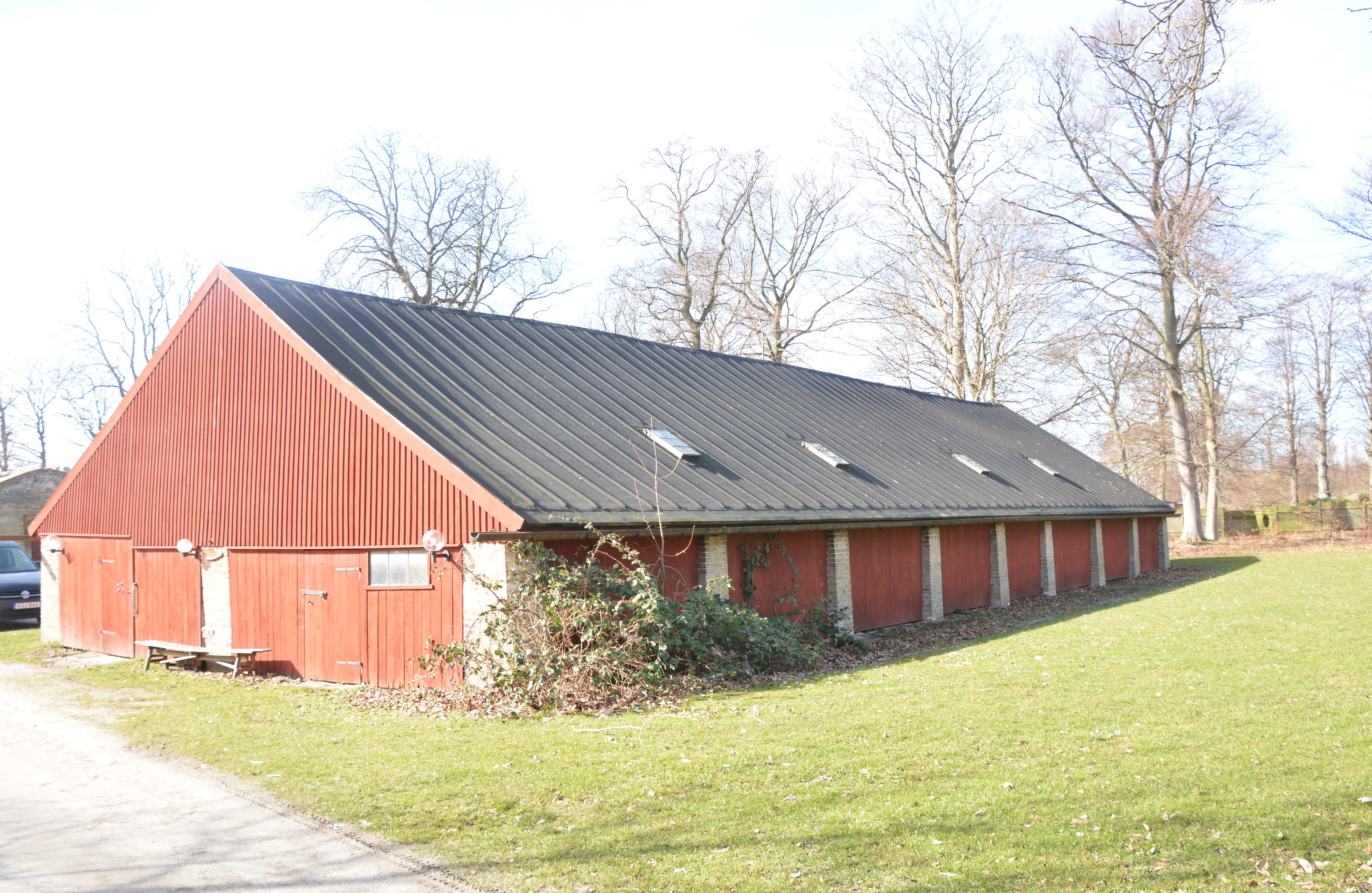 Bjersund brickworks. Drying barn.